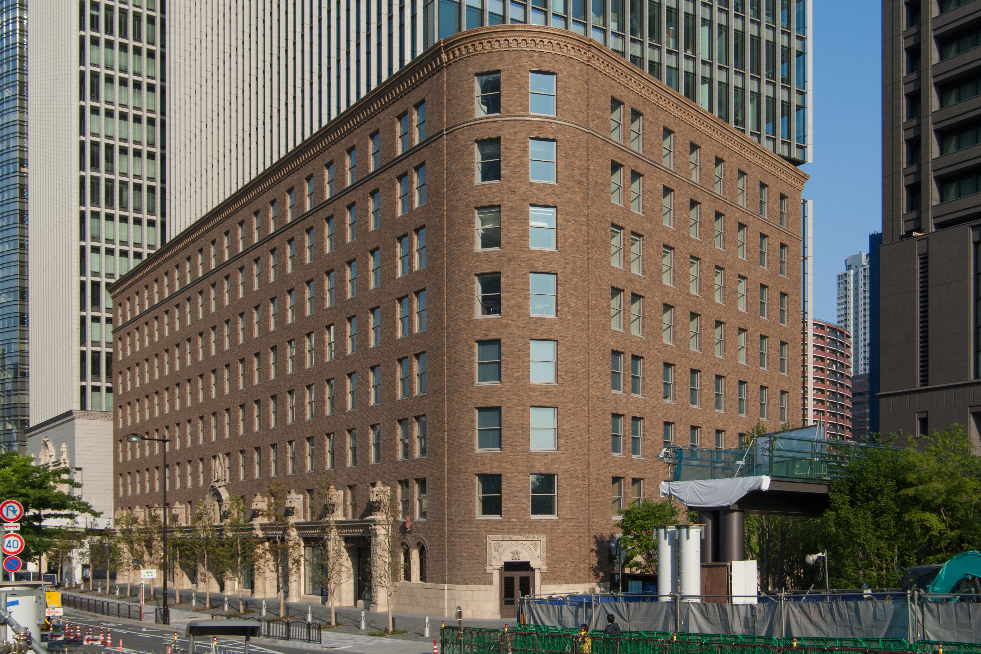 Photograph of the northwest close-range view of the lower part of Daibiru Honkan Building in Kita-ku, Osaka, Osaka Prefecture, Japan.